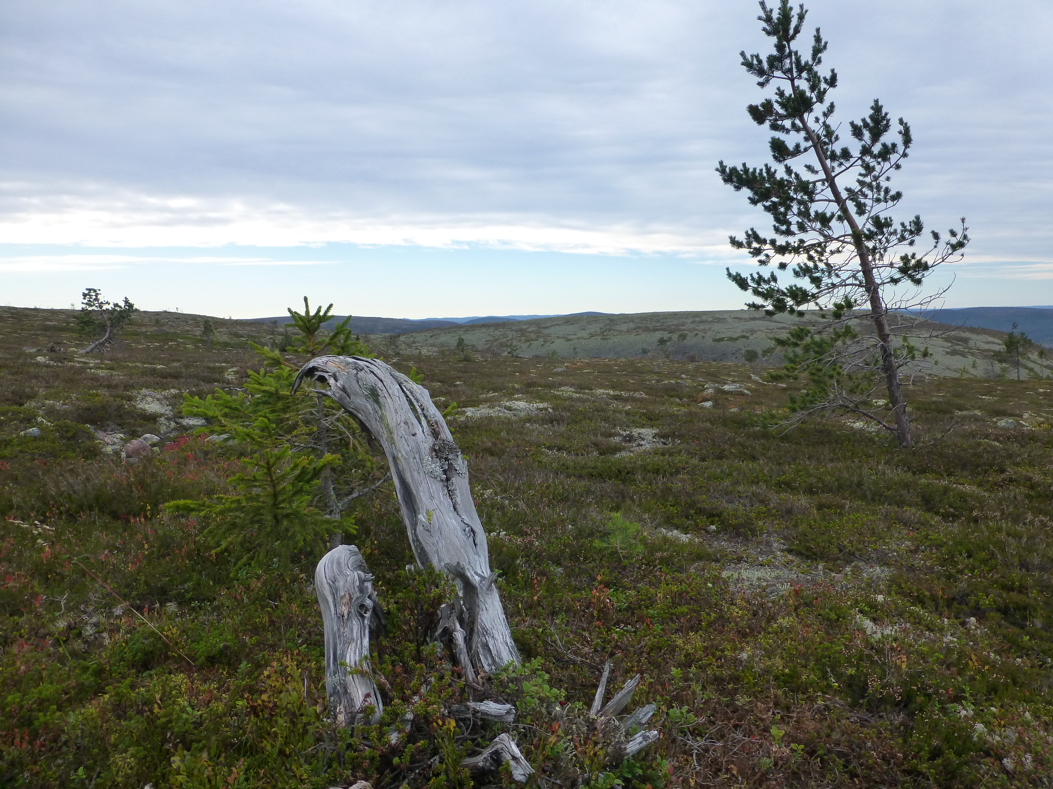 On the southern plateau of Fulufjellet nasjonalpark, Hedmark, Norway